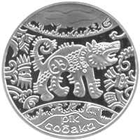 Coin of Ukraine